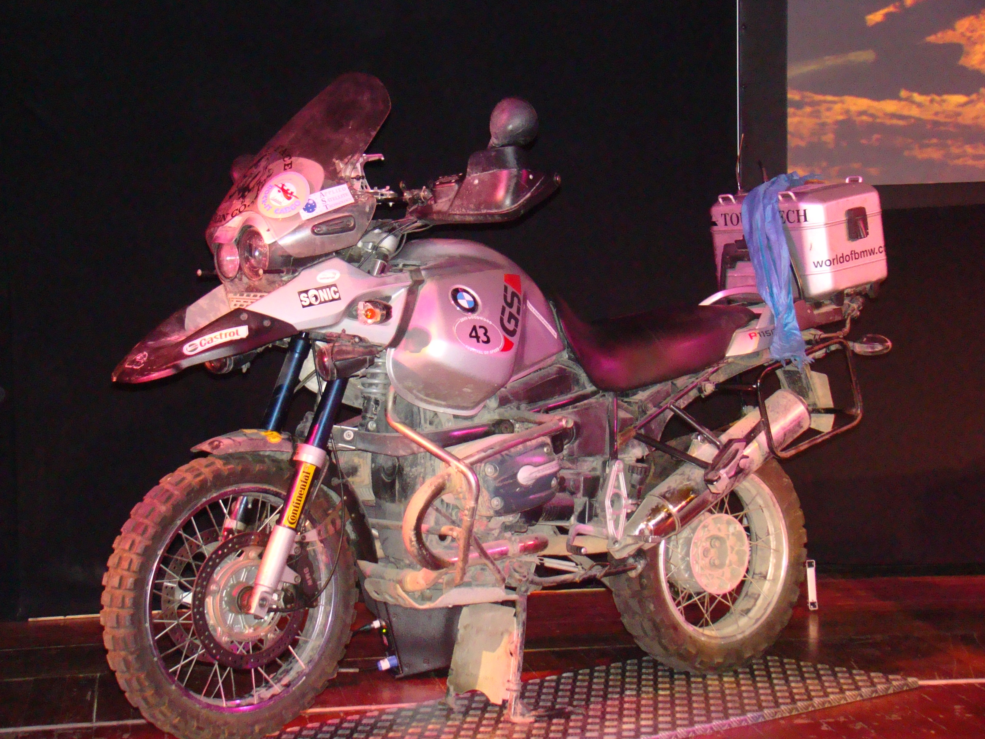 BMW R1150GS as ridden by Charley Boorman in the TV series Long Way Round